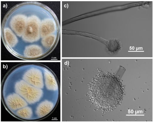 ijms-16-05750-f001: Morphological characteristics of Aspergillus tubingensis isolate FJBJ11. (a) Colonies growing in Czapek’s agar for 7 days; (b) The yellowish colonies observed from the reverse side of the Czapek’s agar; (c) Sporophore and spherical sporangium; (d) Conidia and sporangium with bilayer structure. from: Anti-TMV Activity of Malformin A1, a Cyclic Penta-Peptide Produced by an Endophytic Fungus Aspergillus tubingensis FJBJ11